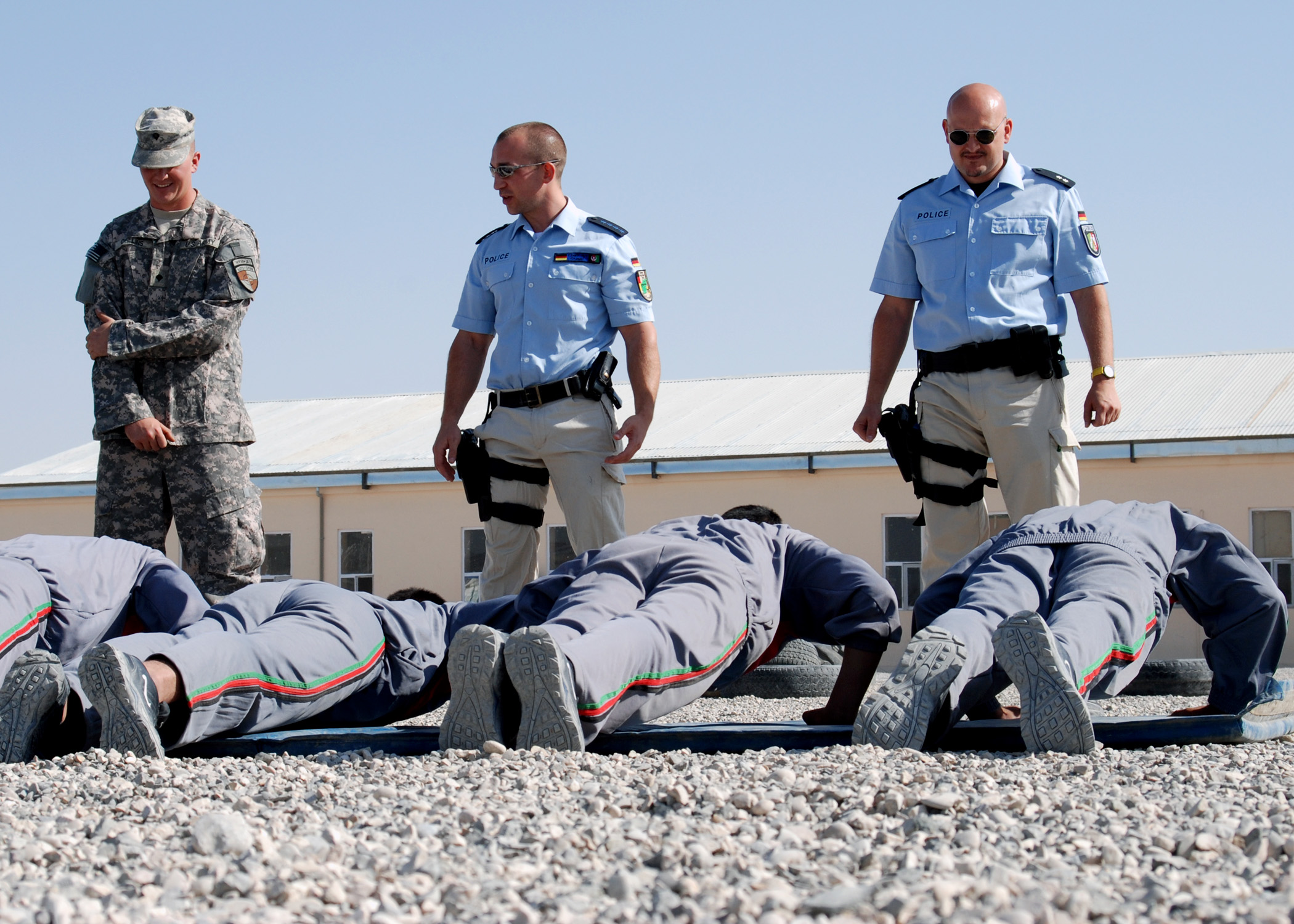 The German Police Project Team oversees a series of Afghan National Police training stations ranging from physical fitness testing and self defense to riot control and handcuffing Oct. 20 at Camp Shaheen, Afghanistan, during the ANPs six-week training course. The mentors are assisting the Afghan government in building and strengthening their police force to ensure that ANP are increasingly able to perform their duties independently and assume responsibility for internal security.